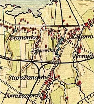 Ligovo map with willage, lake and railway station